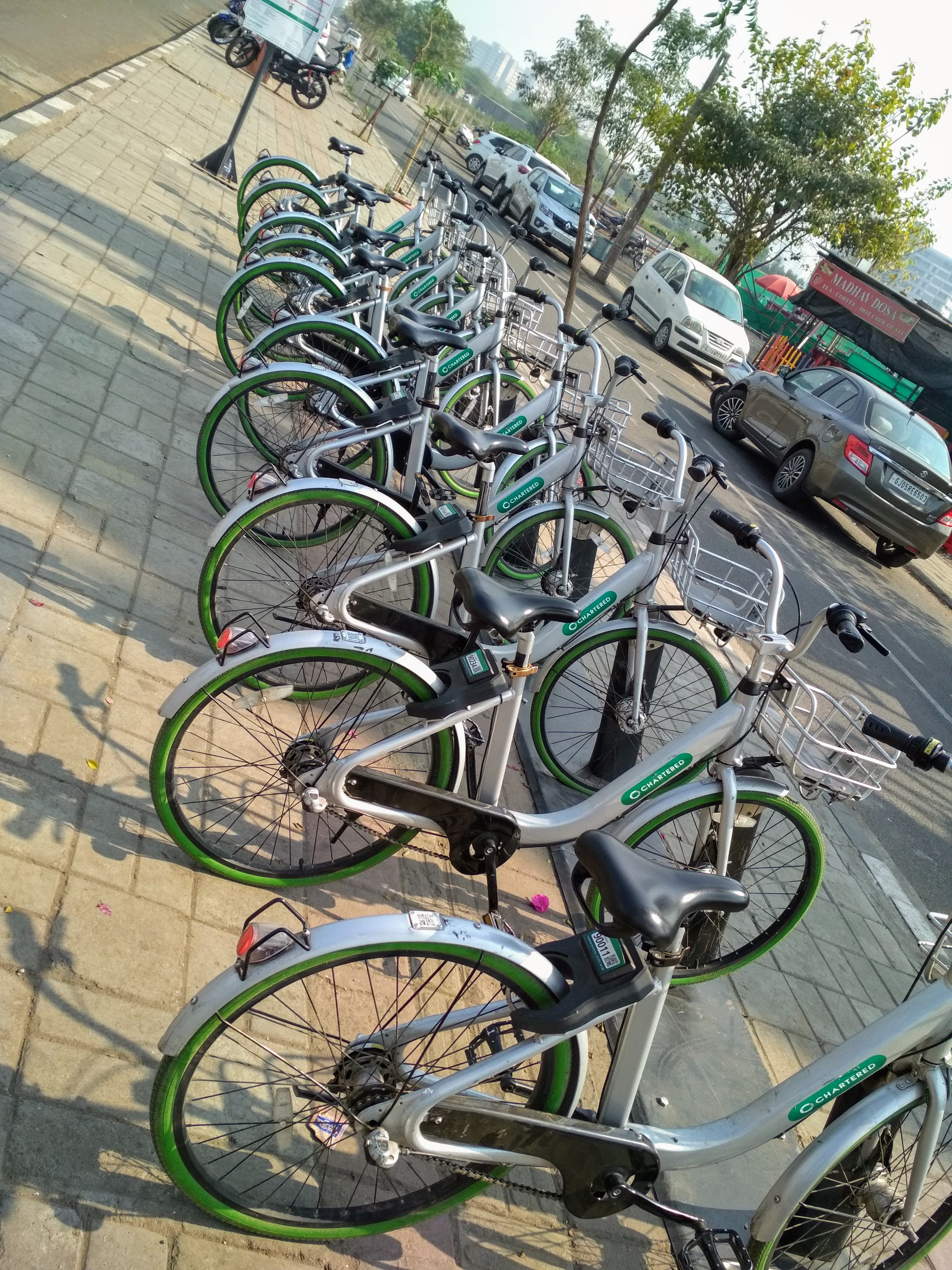 chartered bike is a cycle sharing service in surat